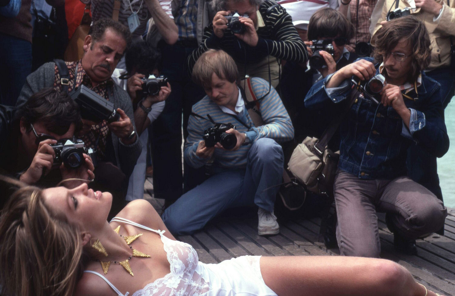 Starlet with photographers, at the Cannes Film Festival (probably taken in 1979). Photographed with a Minolta XD-7 and a Rokkor 24mm f/2.8 lens on Kodachrome 25. The picture was scanned from a dia.